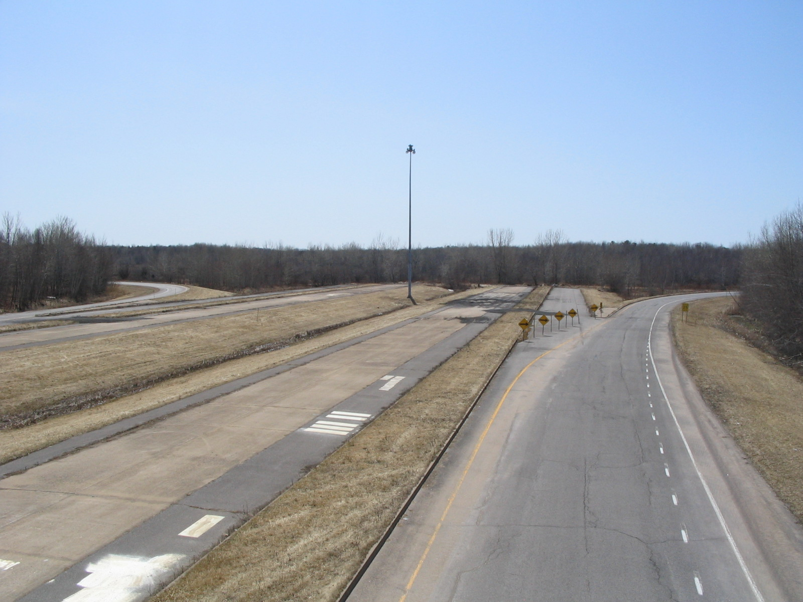 Western end of Québec highway 30 at Bécancour, in Centre-du-Québec region.